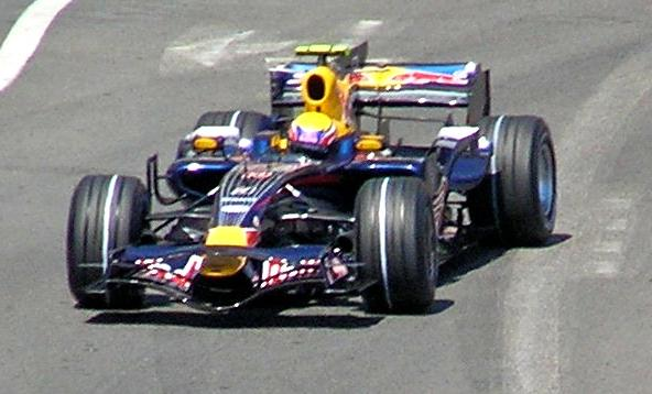 Mark Webber driving for Red Bull Racing at the 2008 Monaco Grand Prix.